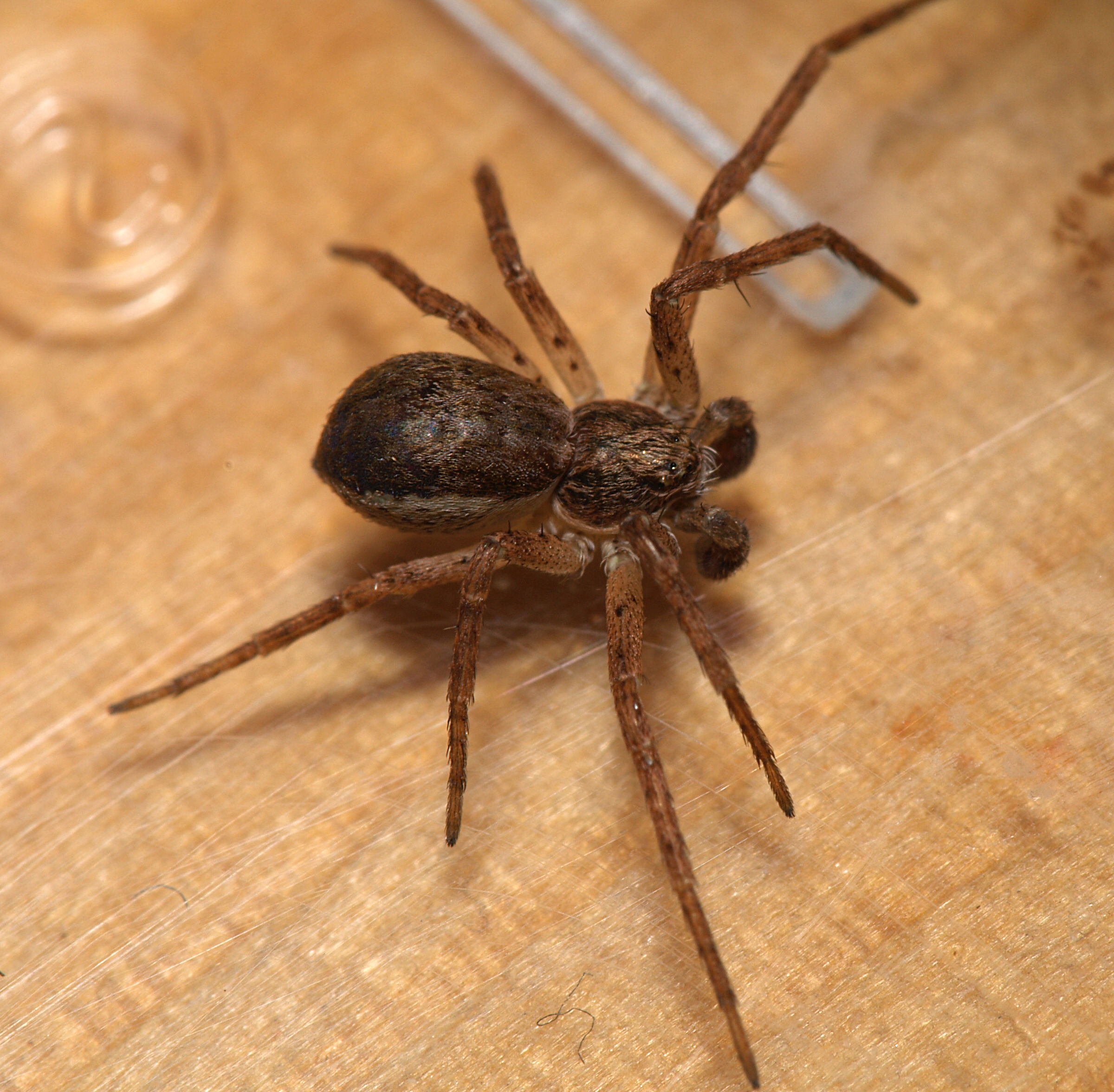 subadult male Philodromus aureolus from Cologne, Germany. Final molt was about one week later.